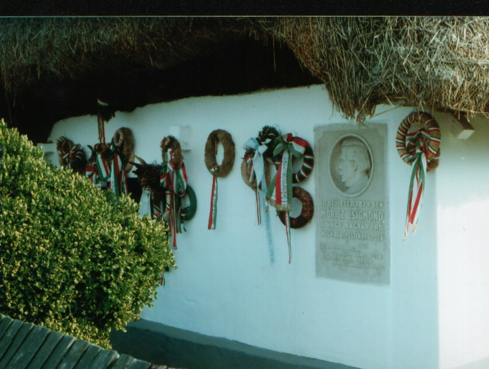 Zsigmond Móricz birth house in Tiszacsécse